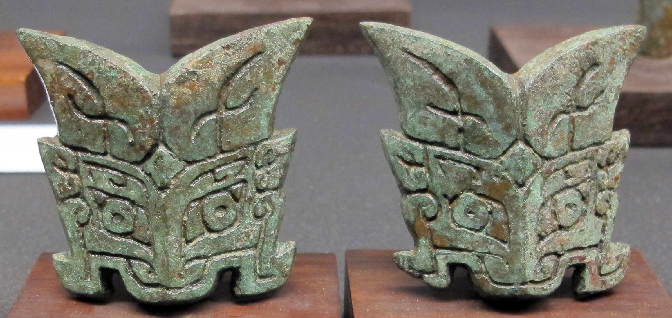 Dinastia zhou occ.le, borchie a mascherina per gioco (hengshi), xi sec. ac.